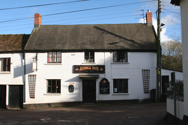 Uffculme: Ashill Inn, Ashill. The building carries an 1835 datestone. Looking south east